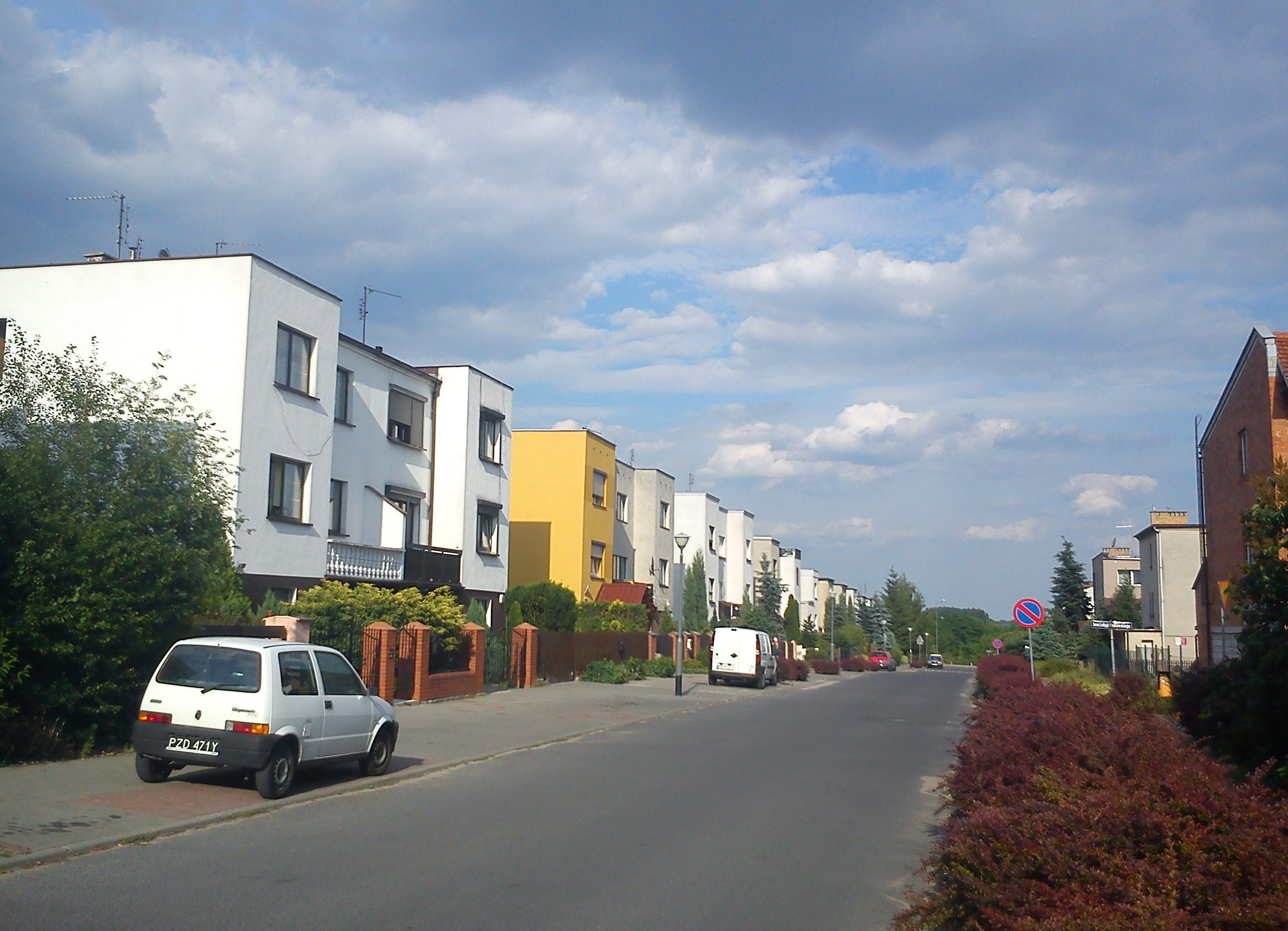 Powstancow Slaskich Distr. Poznan.